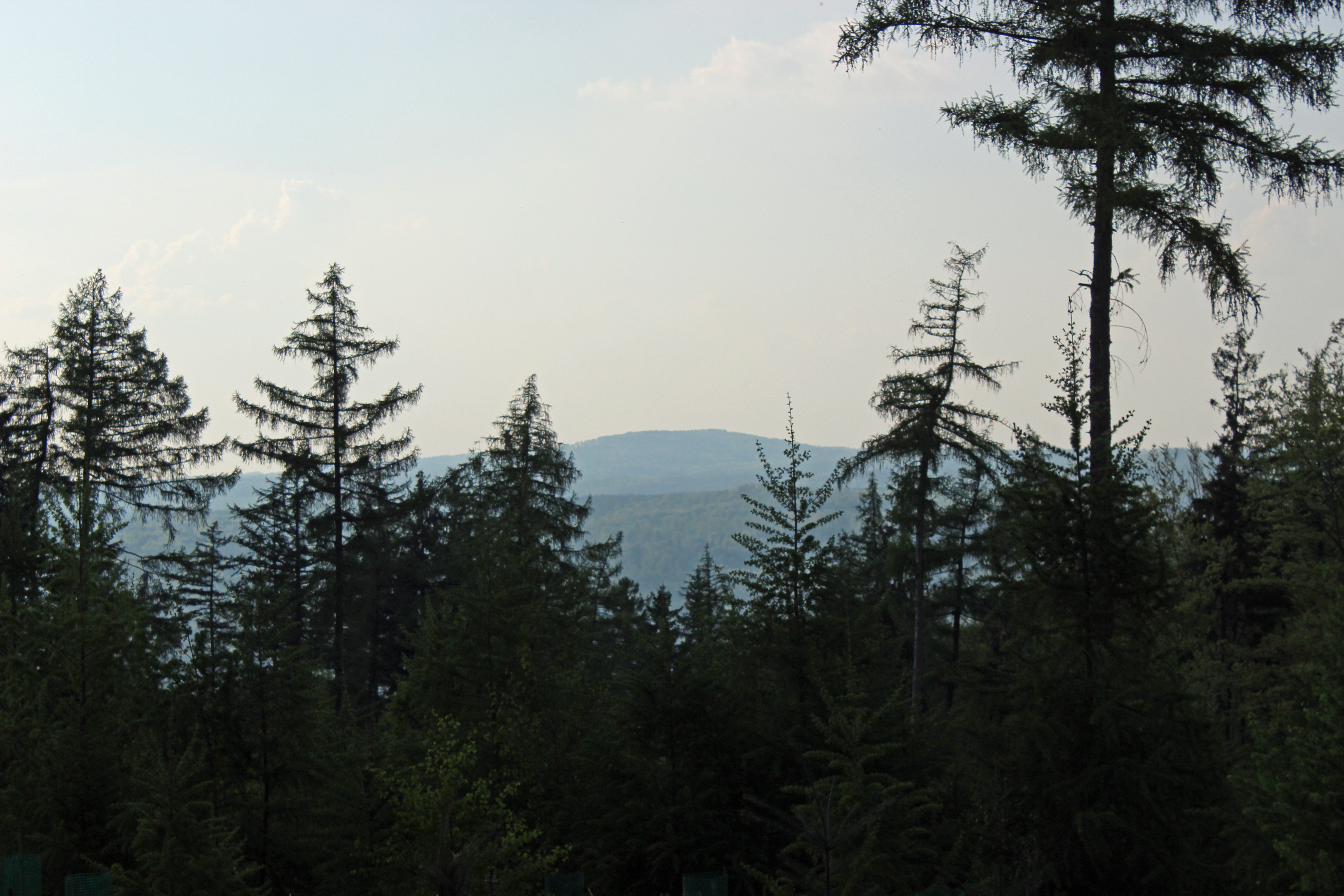 Gahrenberg, Reinhardswald, Hesse, Germany